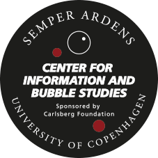 Cibs Logo